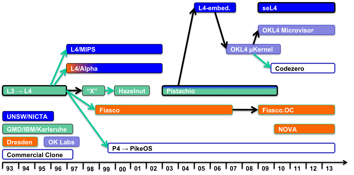 Family tree of the L4 microkernel with time line